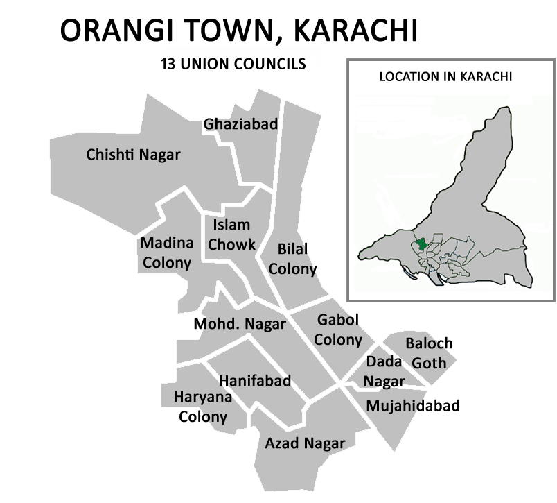 Union councils of Orangi Town, Karachi.